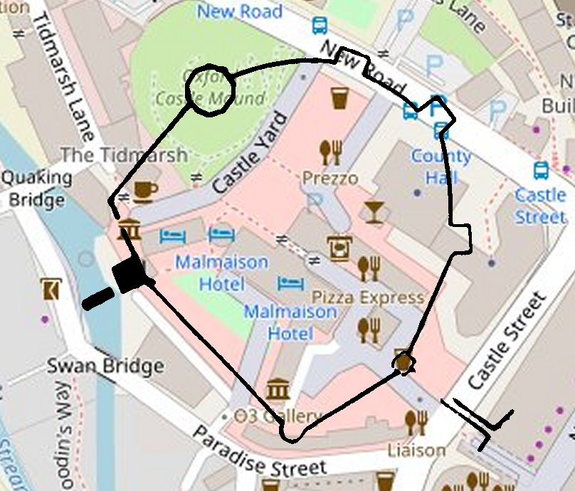 Oxford castle approximate extent, versus present day features: castle outline from Booth et al., 2003, Fig. 26; basemap from OpenStreetMap, June 2018